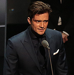 Menswear Designer: A leading British designer of ready-to-wear who has been instrumental in enhancing men’s fashion in the past year. WINNER: JW Anderson Presented by Orlando Bloom